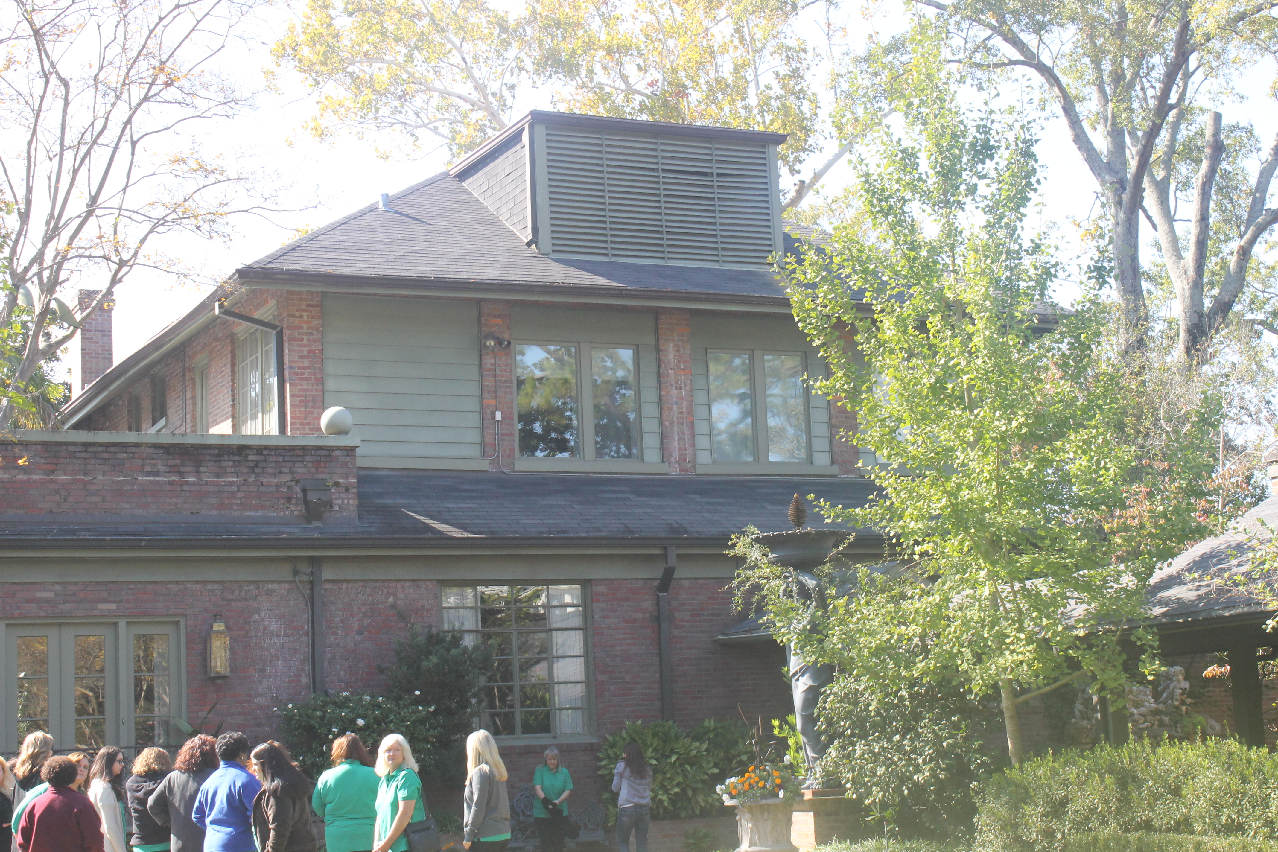 Biedenharn House (rear photo) in Monroe, LA